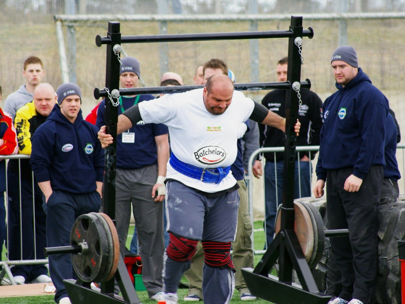 Laurence Shahlaei at the Yoke Walk.